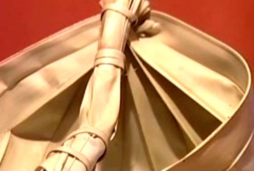 I took this photograph.